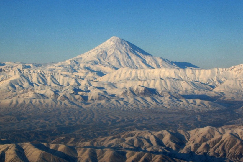 East View of the Mount Damavand in October